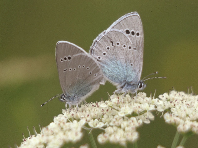 Glaucopsyche alexis, couple